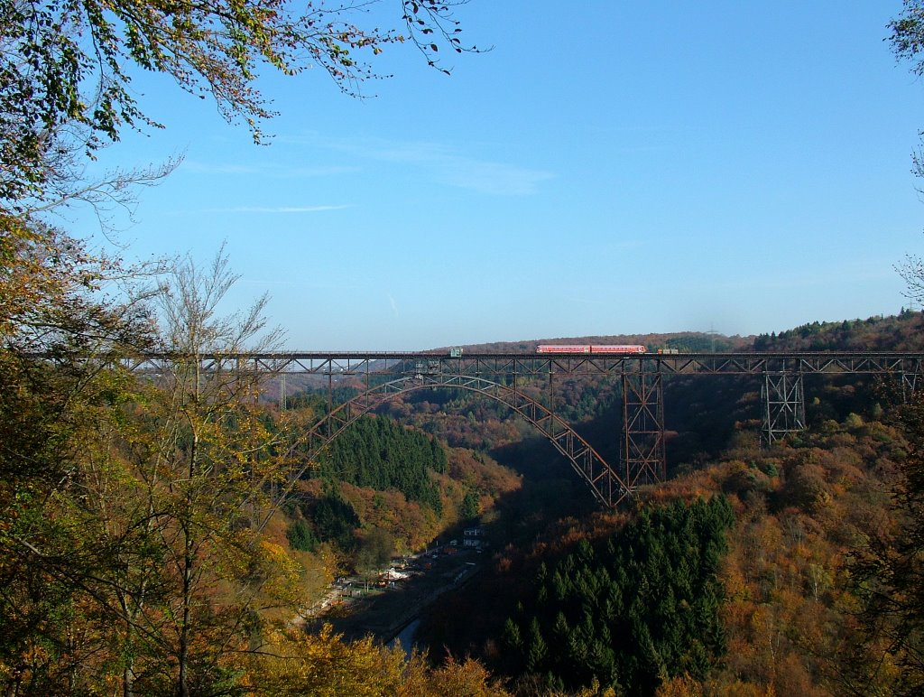 A train of the line RB47 ("Der Muengstener") on the Muengsten bridge near Solingen, Germany